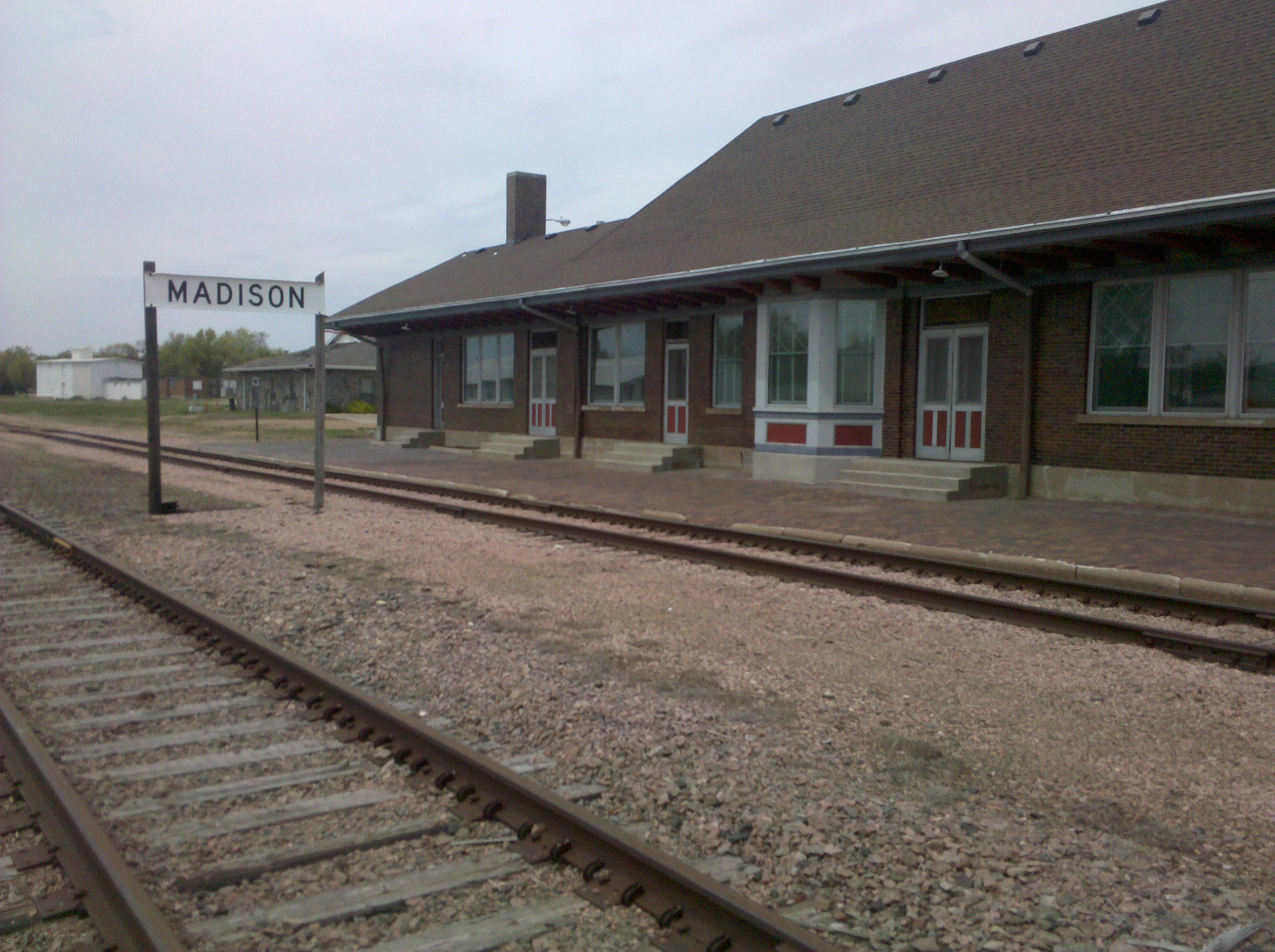 Madison, South Dakota train station